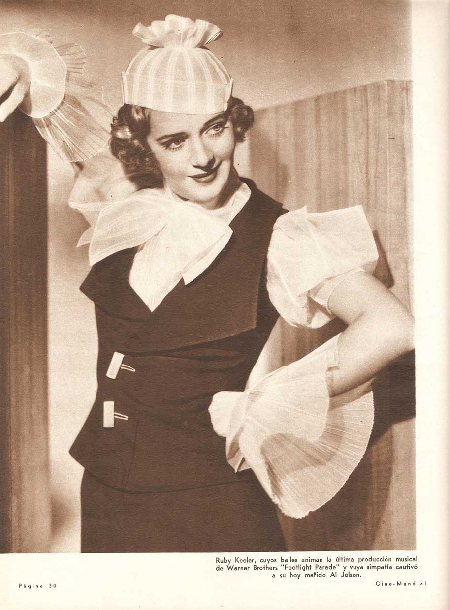 Publicity photo of Ruby Keeler for Argentinean Magazine. (Printed in USA)